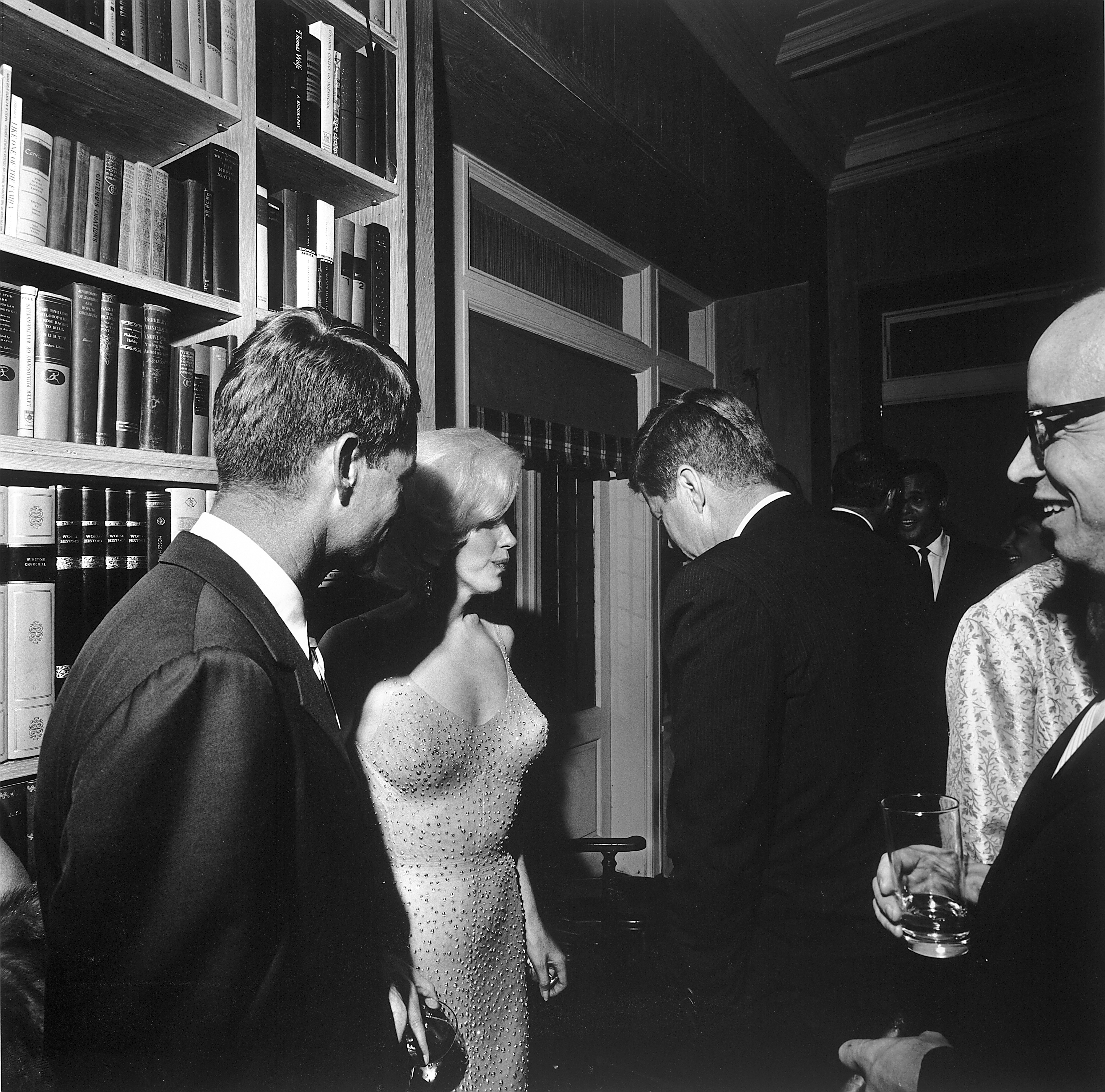 U.S. President John F. Kennedy (with his back to the camera), U.S. Attorney General Robert Kennedy (far left), and actress Marilyn Monroe, on the occasion of President Kennedy's 45th birthday celebrations at Madison Square Garden in New York City. Arthur M. Schlesinger is at the far right. Facing the camera in the rear is singer Harry Belafonte.